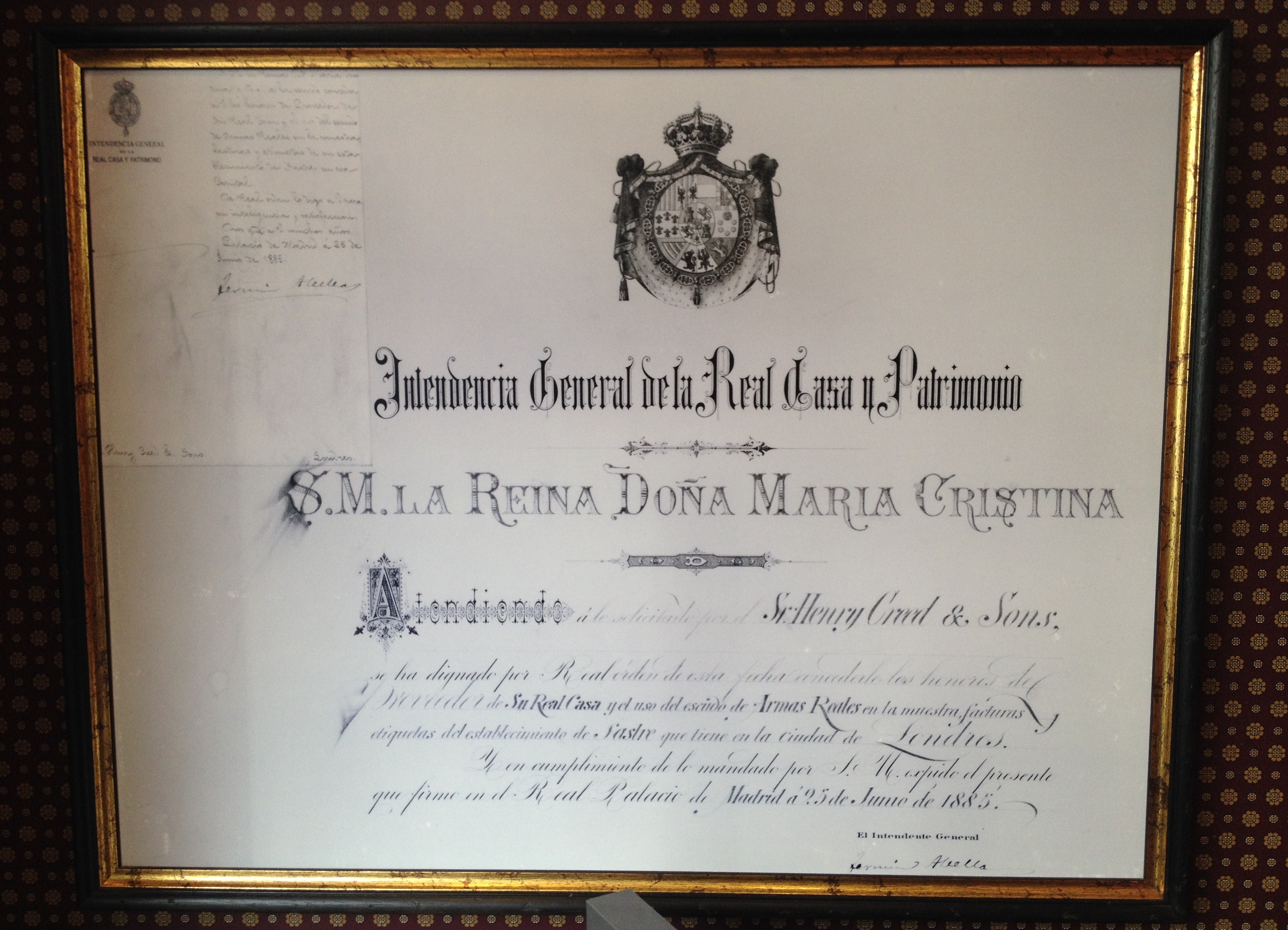 Copy of the Spanish Royal Warrant letter issued to Henry Creed & Sons in London, on 25 June 1885.